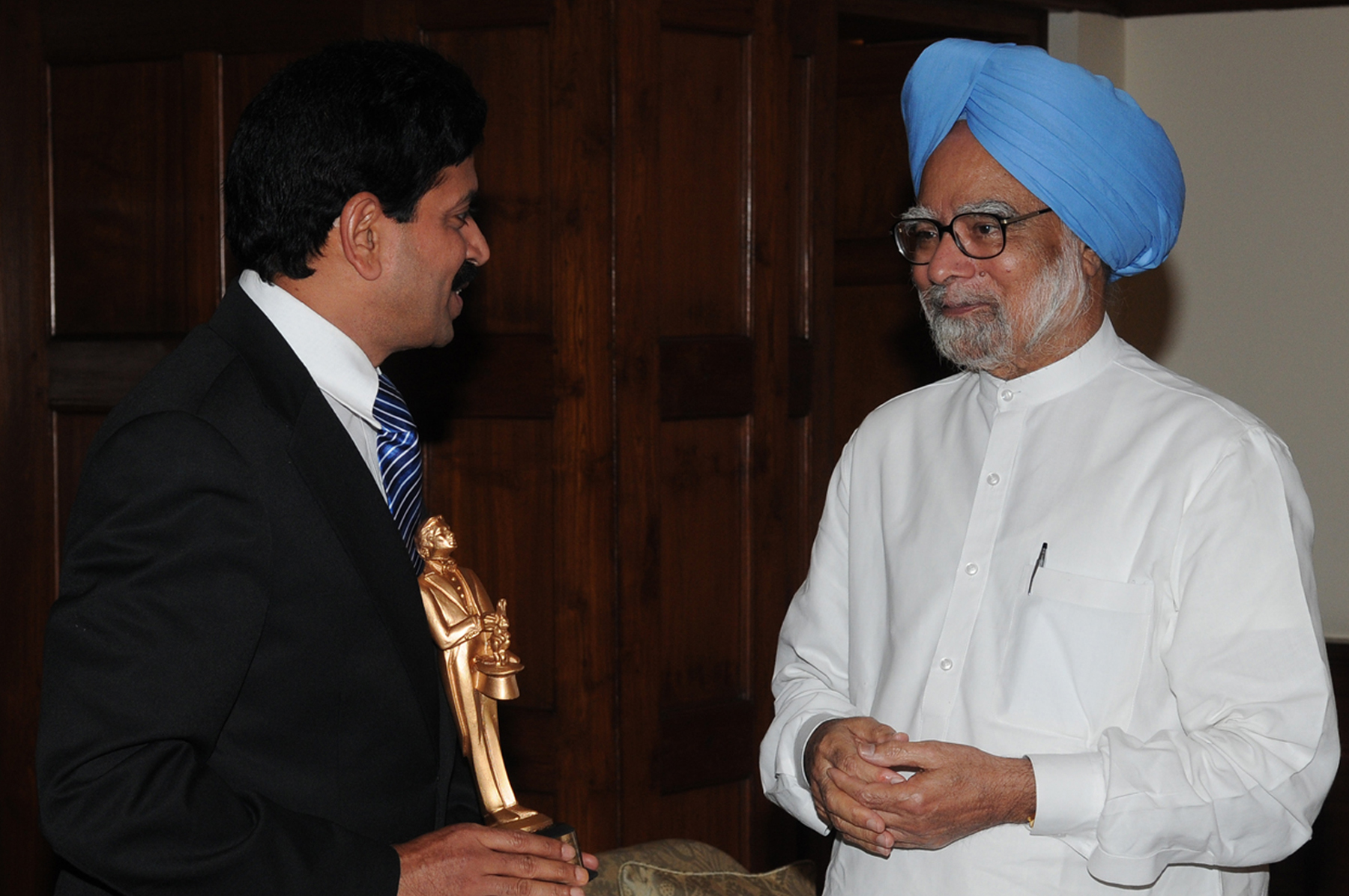 Muthukad with Hon. Prime Minister of India, Dr. Manmohan Singh, 2012